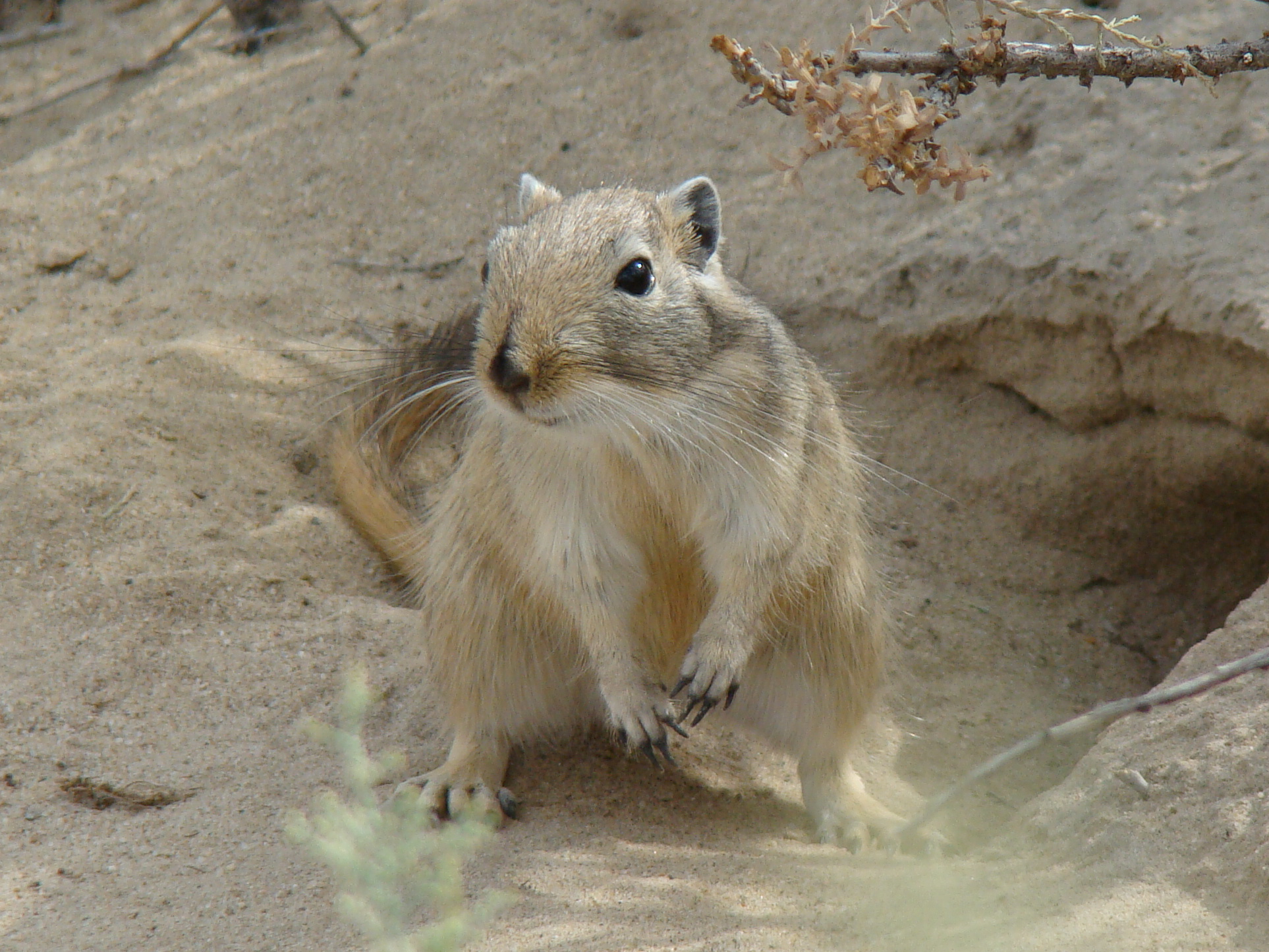 Great gerbil (Rhombomys opimus). Baikonur-town, Kazakhstan.